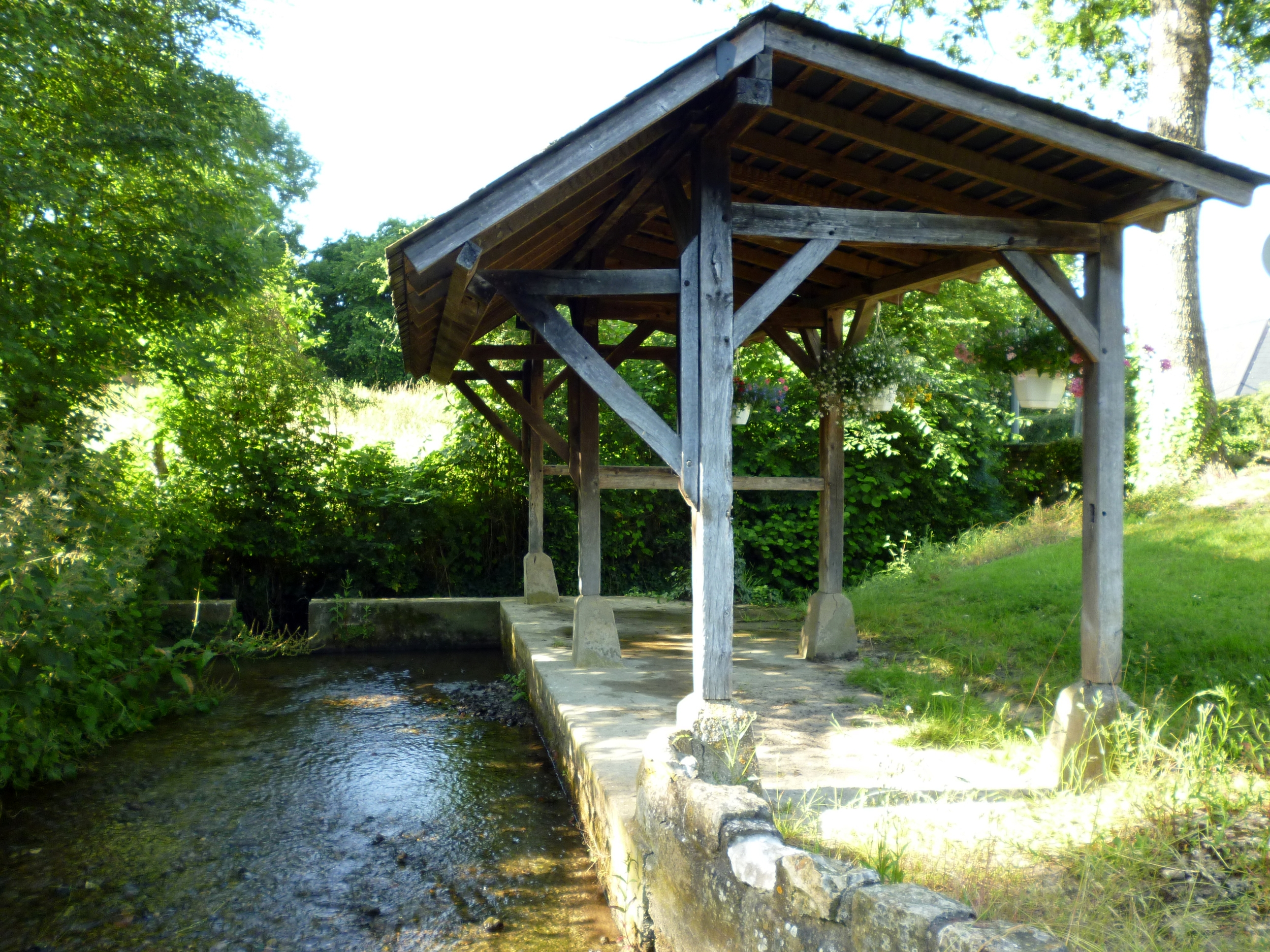 A lavoir (wash house) in Freneuse-sur-Risle (Eure, Haute-Normandie, France).